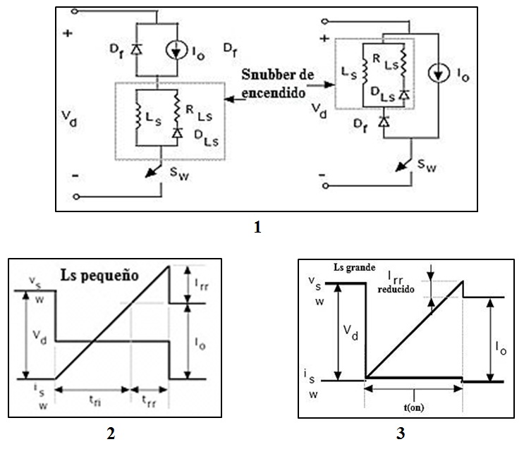 Imagen444